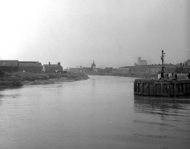 Mouth of the Dutch River, Goole, East Riding of Yorkshire, England.The Dutch River is an artificial waterway which parallels the Knottingley and Goole Canal in a southwesterly direction from Goole. While the Dutch River is technically navigable, it is extremely dangerous, being subject to extreme and sudden changes in level and in direction of flow. Therefore no boater in his right mind would go that way.